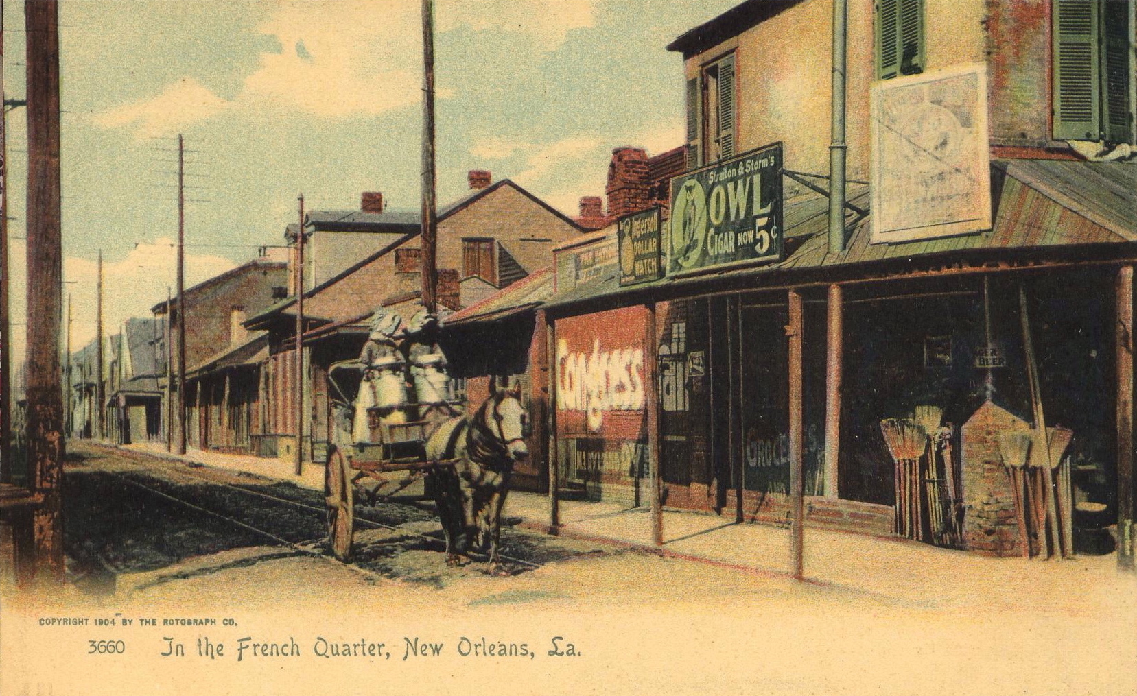 Postcard view of New Orleans French Quarter, published 1904. Horse and 2-wheel cart, looks like milk wagon, with milk jugs and pair of women in bonnets, goes on street past corner grocery store with outdcoor advertisements (including for "Ingersol" Watches and "Owl" Cigars) and display of brooms out front. Note sign for "lager beer"; local groceries often served beer in this era. Street has tracks for streetcar.